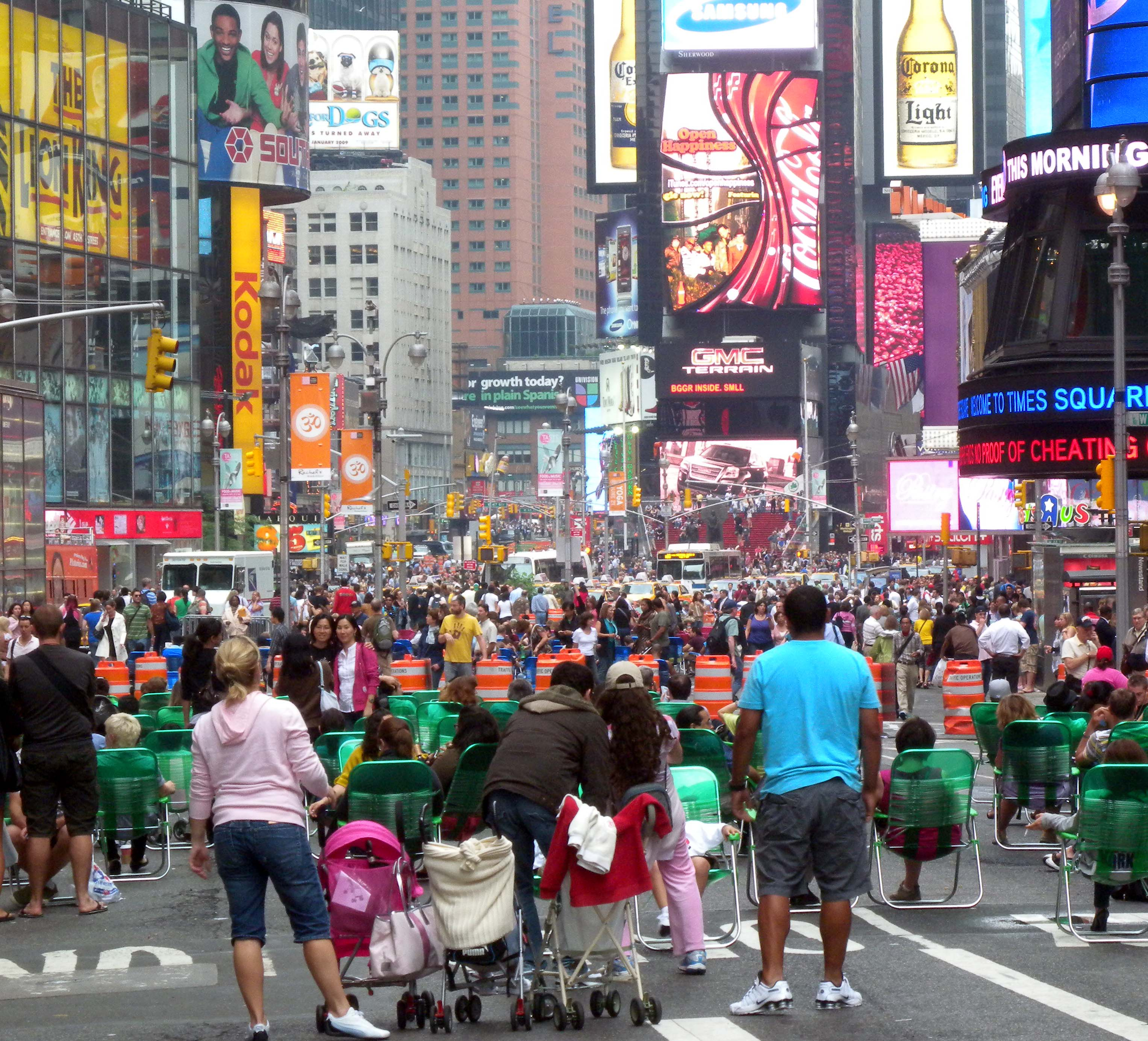 Looking north up Broadway from 43d Street, full zoom, with people using the green beach chairs distributed by the local BID. Replaced, in the Times Square article, File:TSq Bwy pedestrianized jeh.jpg.